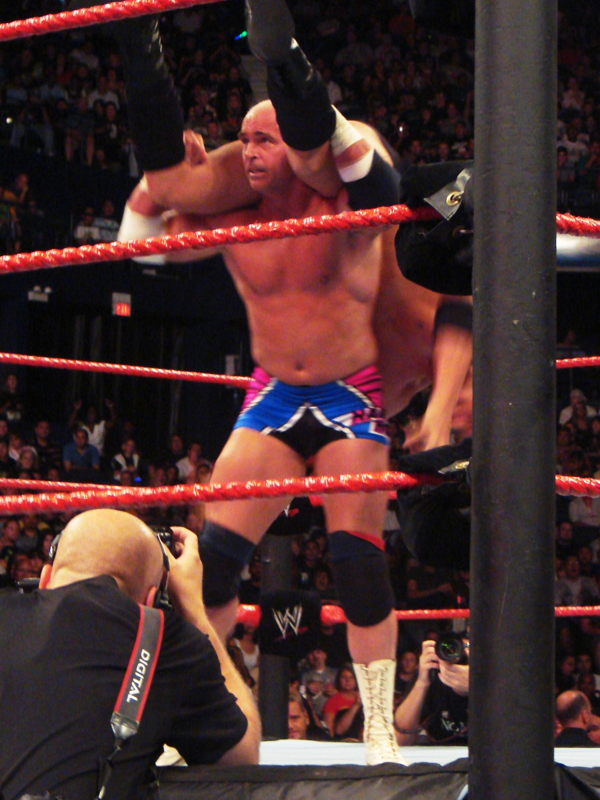 Hardcore Holly hitting the Alabama Slam on Cody Rhodes. , , , October 7, 2007. Taken by me, cropped, rotated, and brightened.